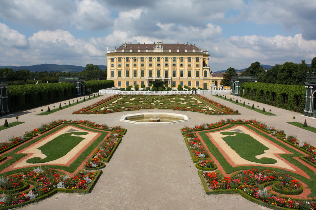 Privy Garden of the crown prince in the palace of Schönbrunn in Vienna.